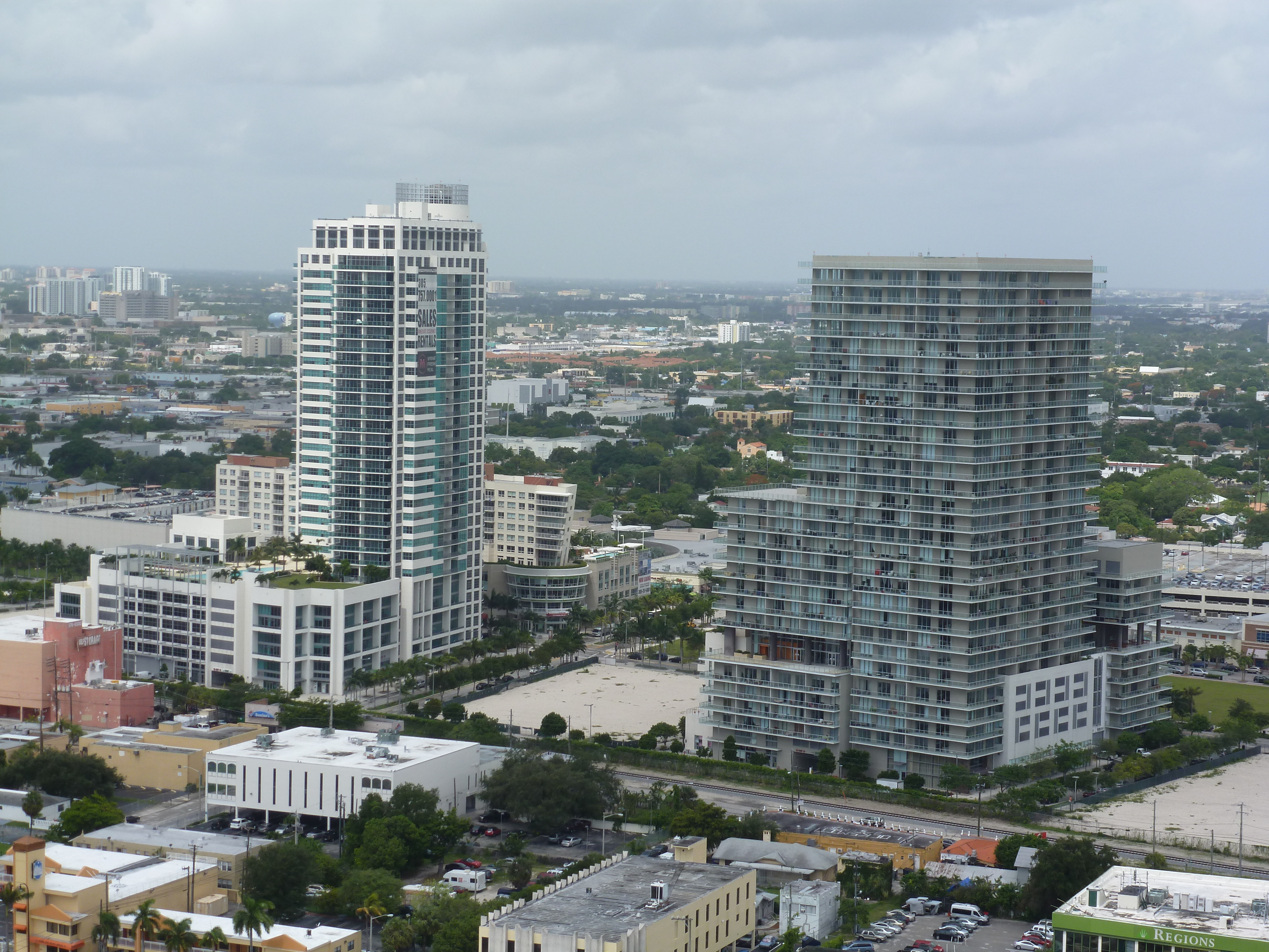 Midtown Miami, Greater Downtown Miami, Florida.